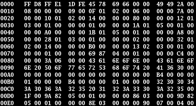 Listing of few bytes of a binary image file . The first column represents the current index.